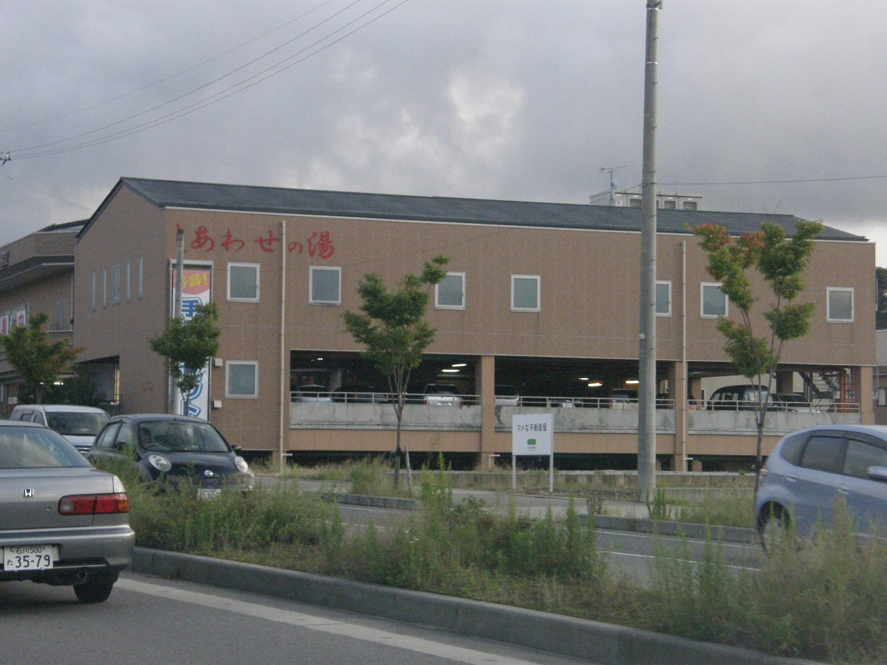 Autumn-tennen-onsen,siawasenyu2